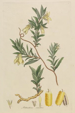 Billiardiera [i.e. Billardiera] scandens [cropped picture]. 1 print : engraving, hand col.; plate mark